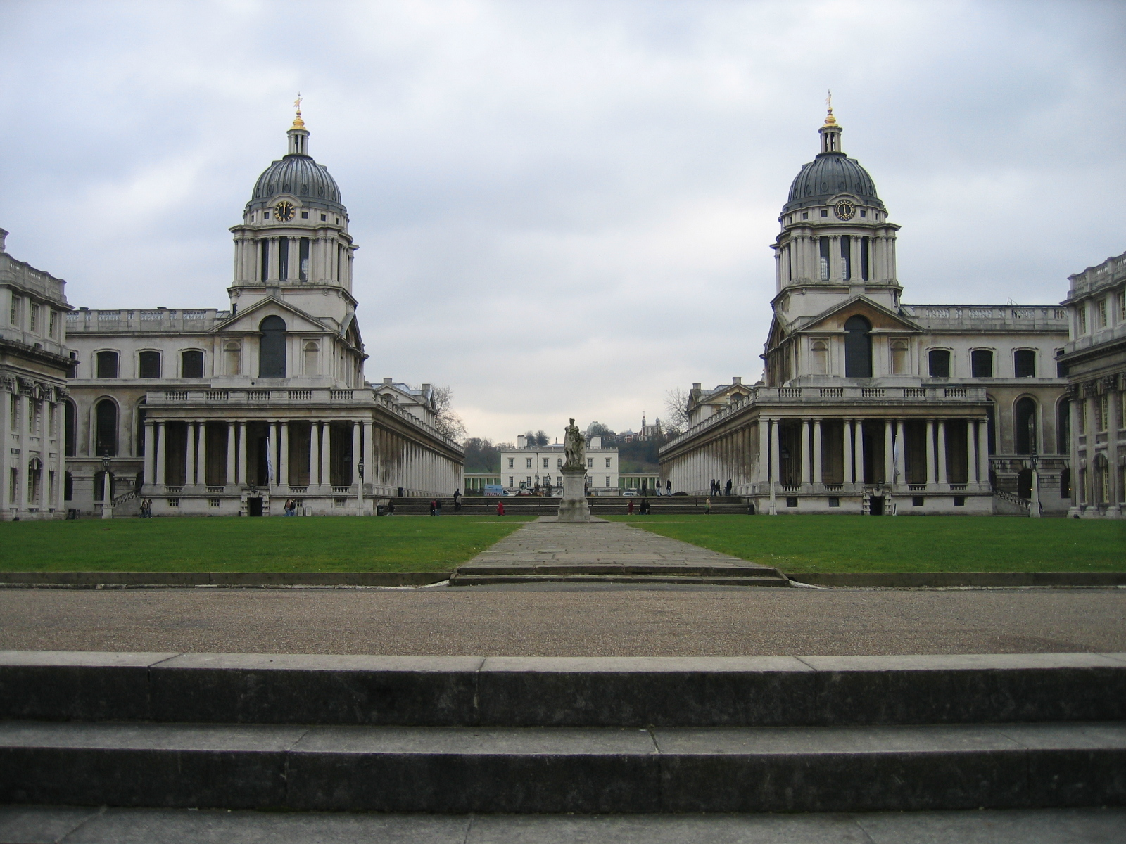 Picture of an Greenwich Hospital from the banks of the Thames in Greenwich, London, England.